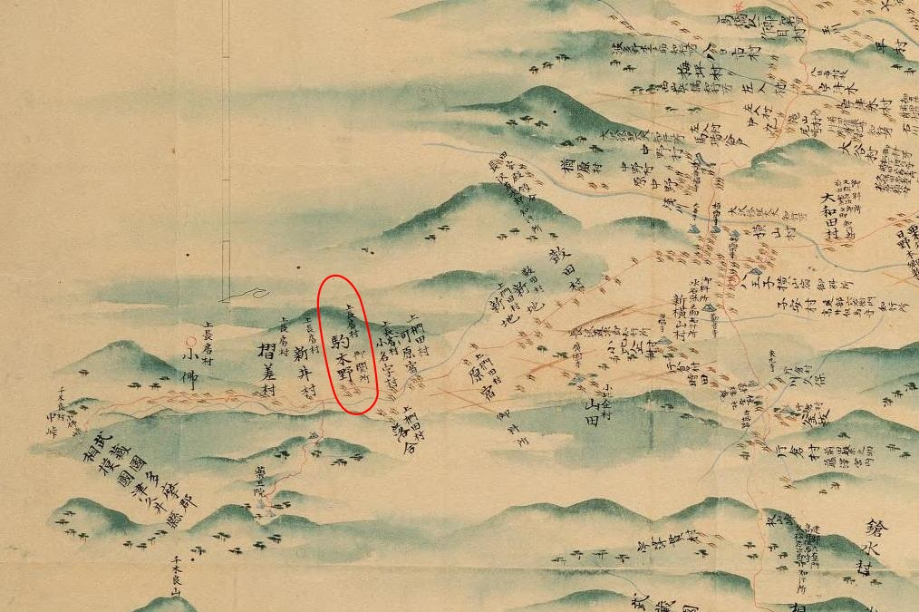 National Diet Library Digital Collection This image is available from the website of the National Diet Library This tag does not indicate the copyright status of the attached work. A normal copyright tag is still required. See Commons:Licensing. English | 日本語 | +/−